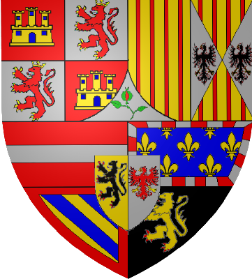 This picture shows coats of arms of Charles V, Holy Roman Emperor, king of Spain, archiduke of Autria, duke of Brabant and Limbourg, count of Flandre, Hainaut,... It’s a blazon done for Blazon Project of French-speaking Wikipédia.